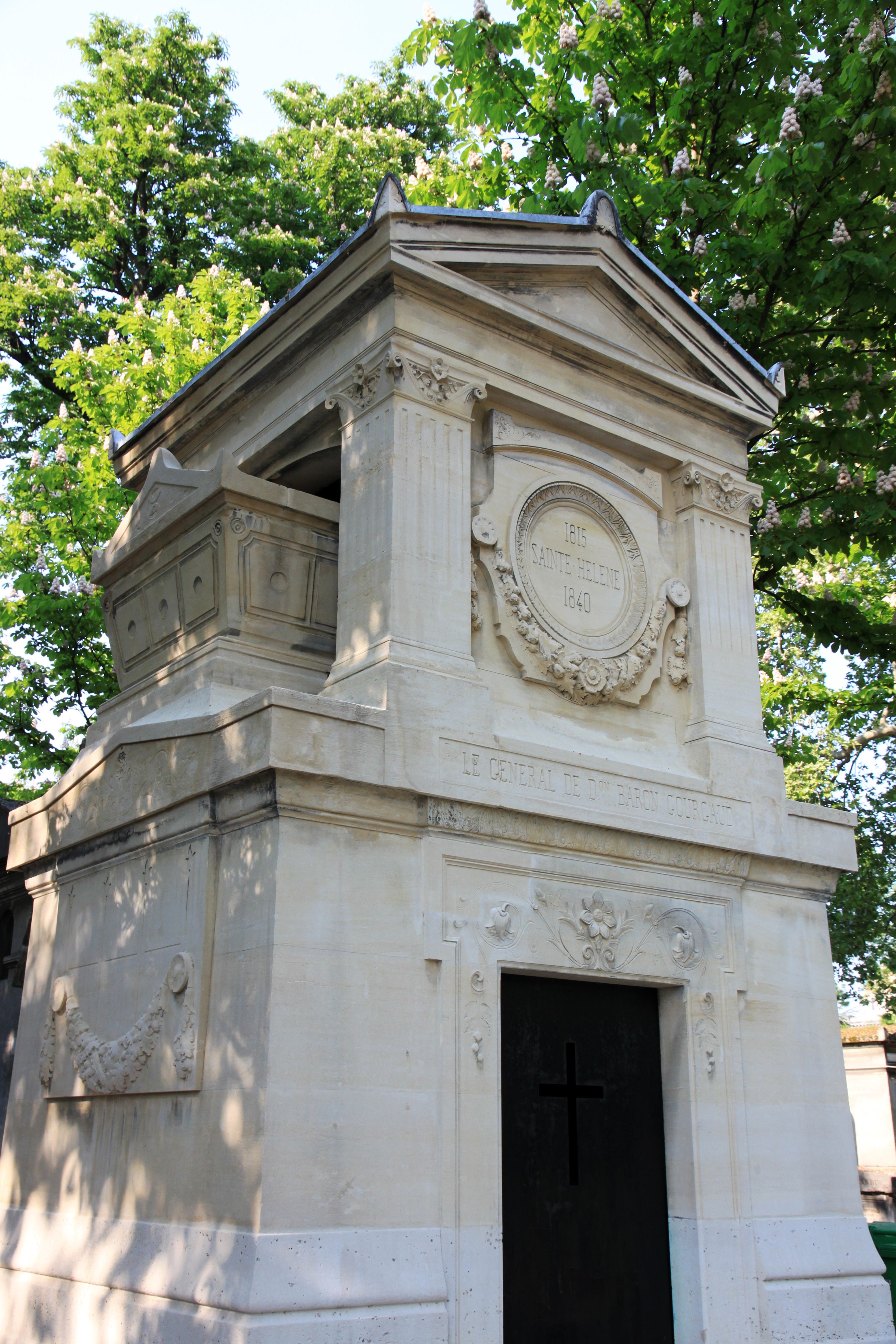 Tomb of Gaspard Gourgaud (1783-1852), Père Lachaise Cemetery (division 23), Paris.